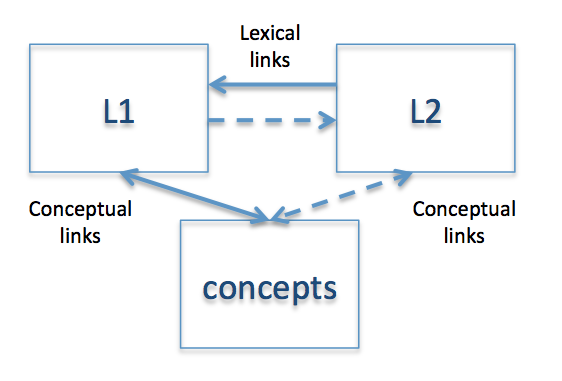 Diagram to help explain the RHM MOdel